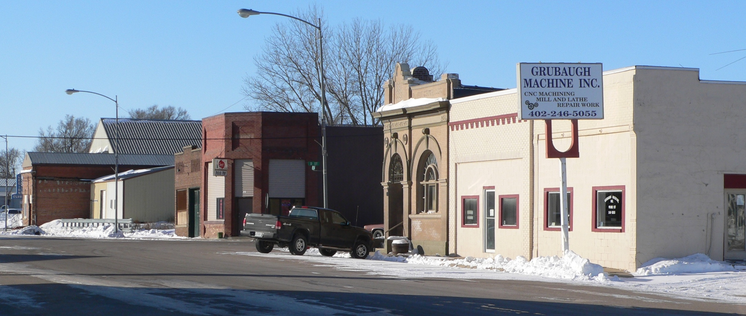 Downtown Platte Center, Nebraska: north side of 4th St.